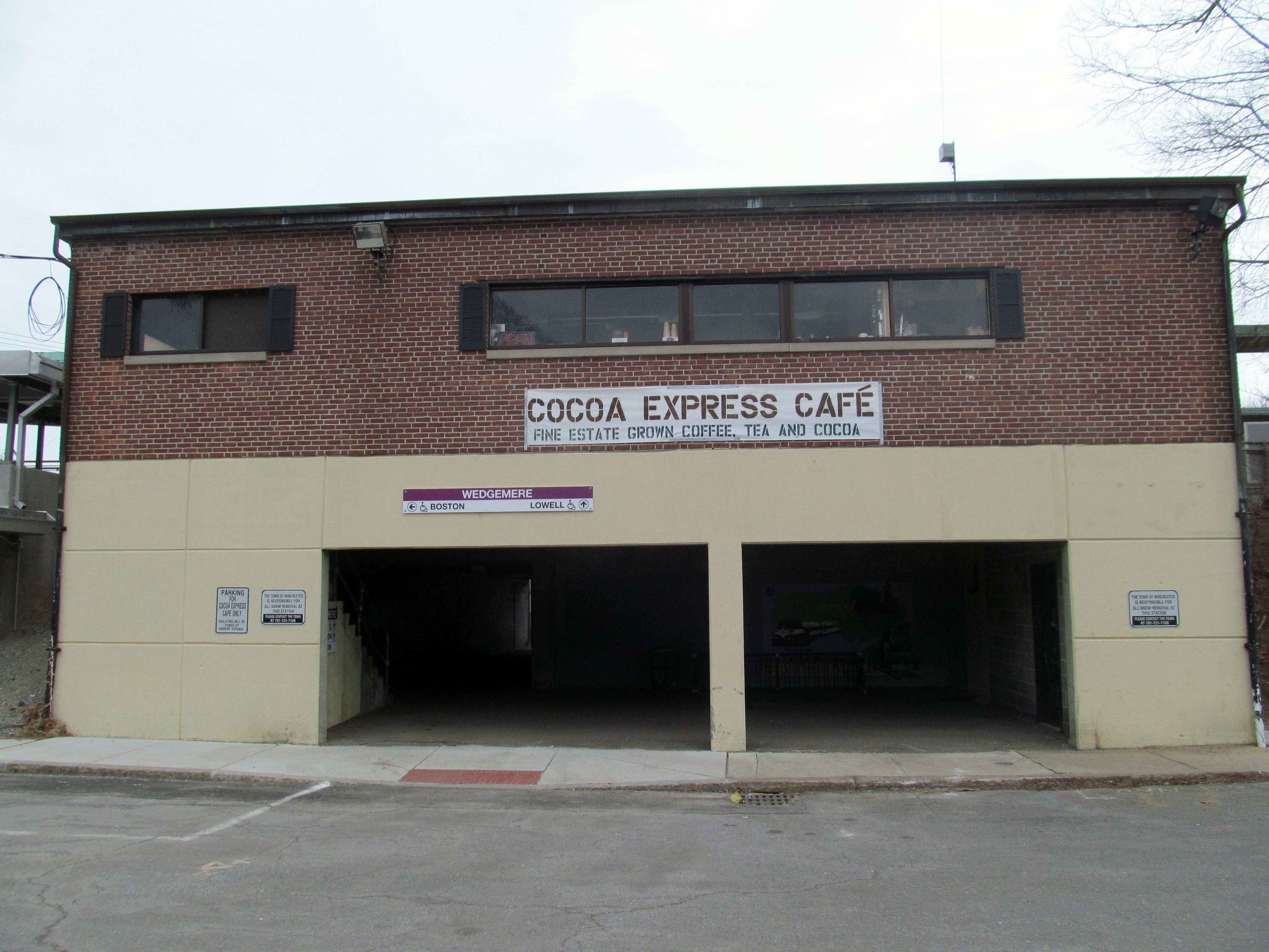 Ground-level view of the 1957 station building at Wedgemere, now a coffee shop